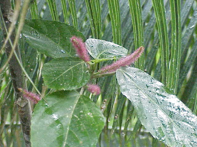 Species: Acalypha hispida Family: Euphorbiaceae Image No. 1